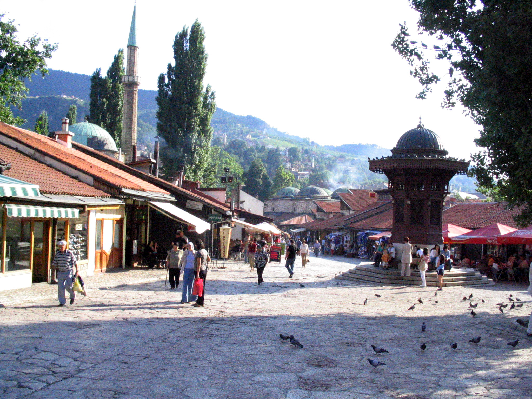 Sebilj fountain in the centre of Baščaršija square, Sarajevo, capital city of Bosnia and Herzegovina.